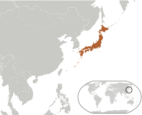 A map of East Asia with Japan highlighted in brown